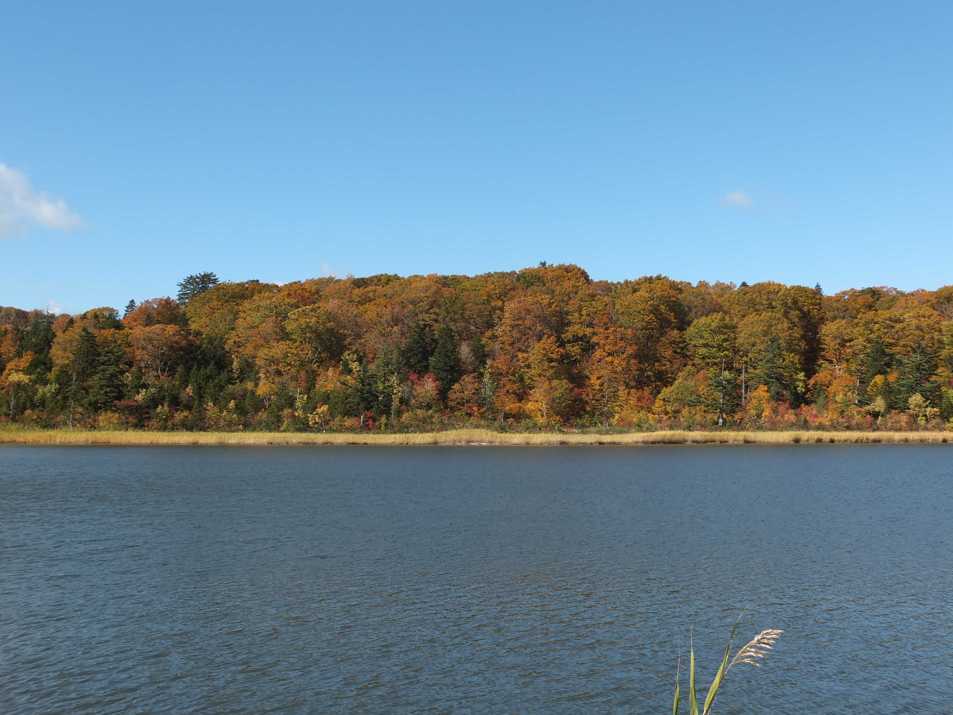 Onuma in Kazuno City, Akita Prefecture, Japan